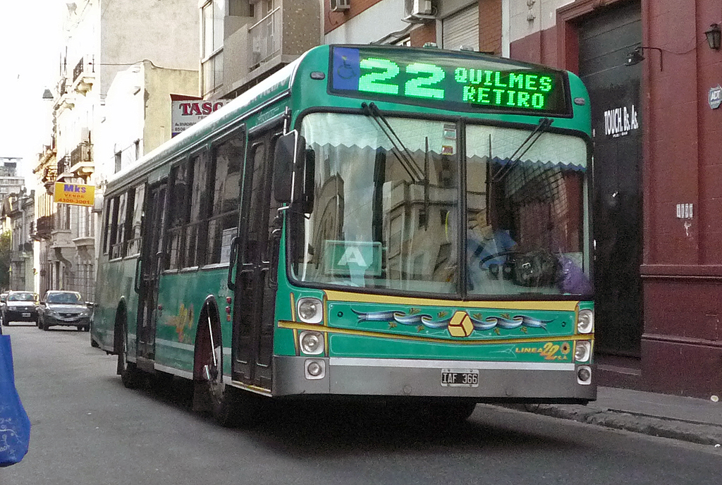 Materfer Águila bus (reg. IAF 366) with MTF BU1115LE chassis in Buenos Aires, Argentina. Colectivo, line 22, Línea 22 S.A. operator.